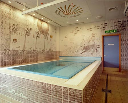 Hydrotherapy Pool Wall Mural by Roger Michell & Mike Hughes, Bristol Royal Hospital for Children, 1998